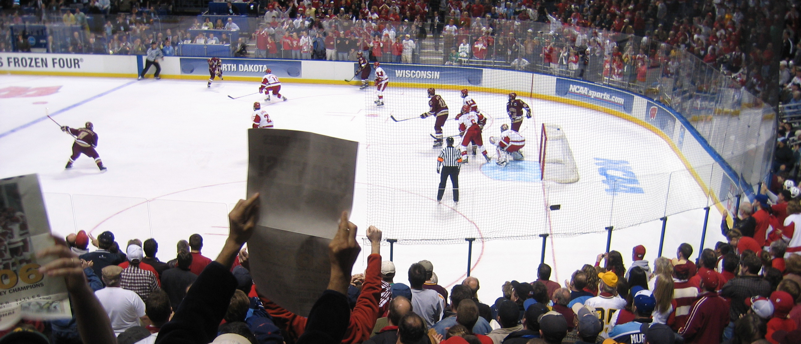 The final BC shot prepares to leave the defenseman's stick. For poetic justice, this defenseman should have been ejected for a 5 min CFB earlier in the game.